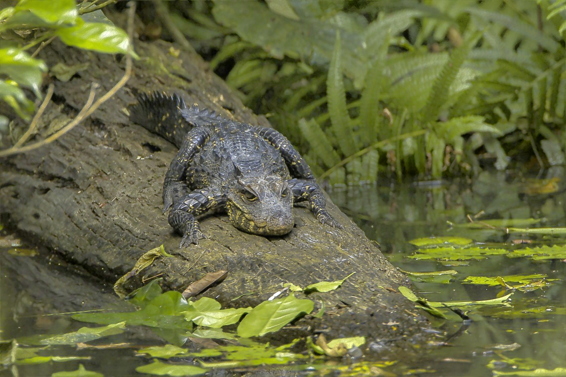 Dwarf crocodile (Osteolaemus tetraspis) in the Ankasa Conservation Area, Ghana.